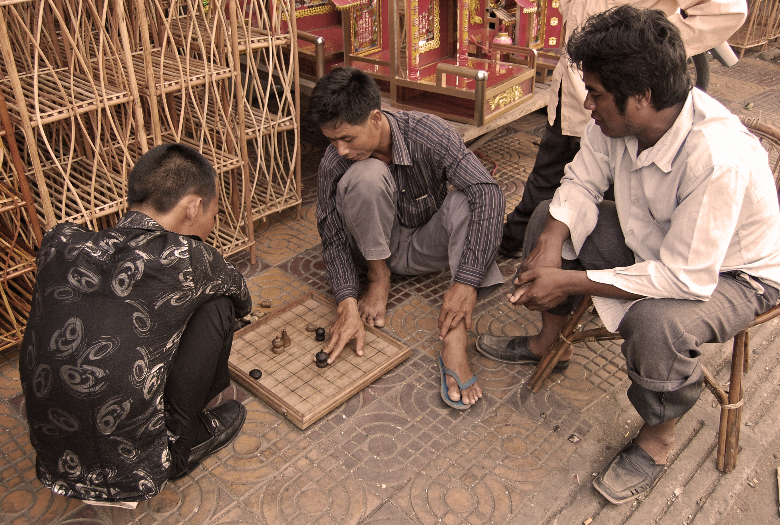 A photo of Cambodians playing Ouk on the street.